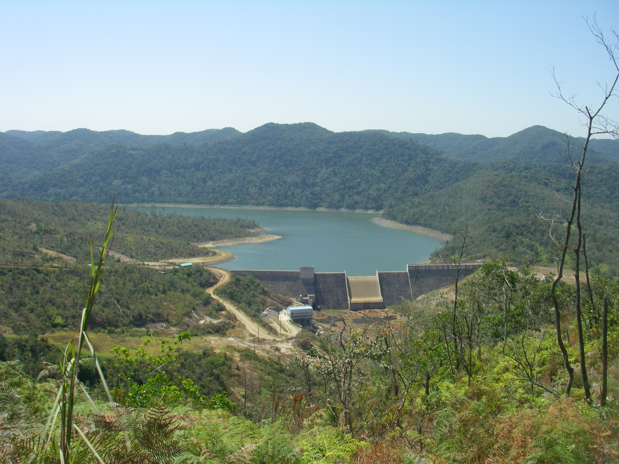 Chalilo Dam, Cayo District, Belize